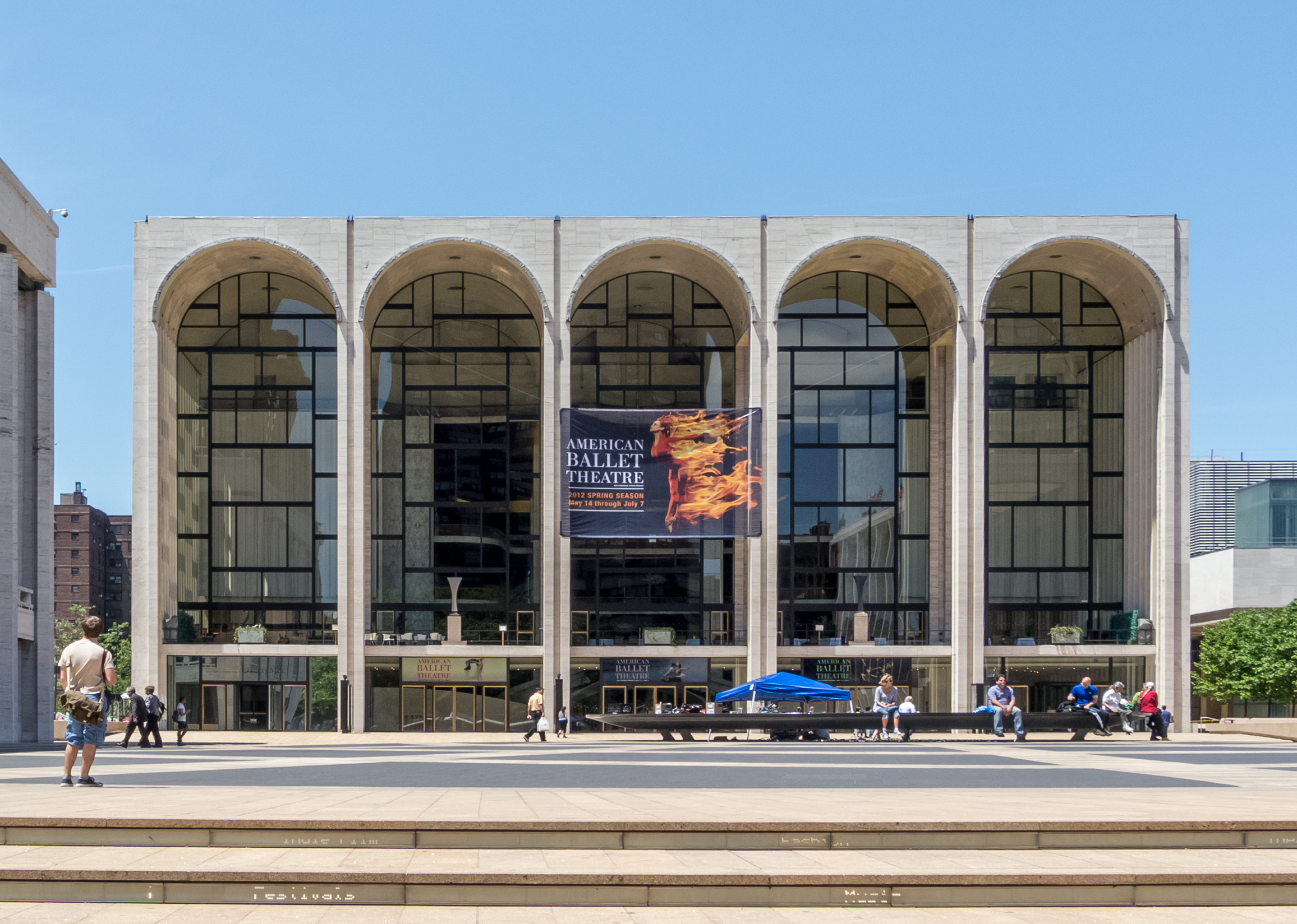 The Metropolitan Opera house im Lincoln Center for the Performing Arts (Manhattan, New York City).